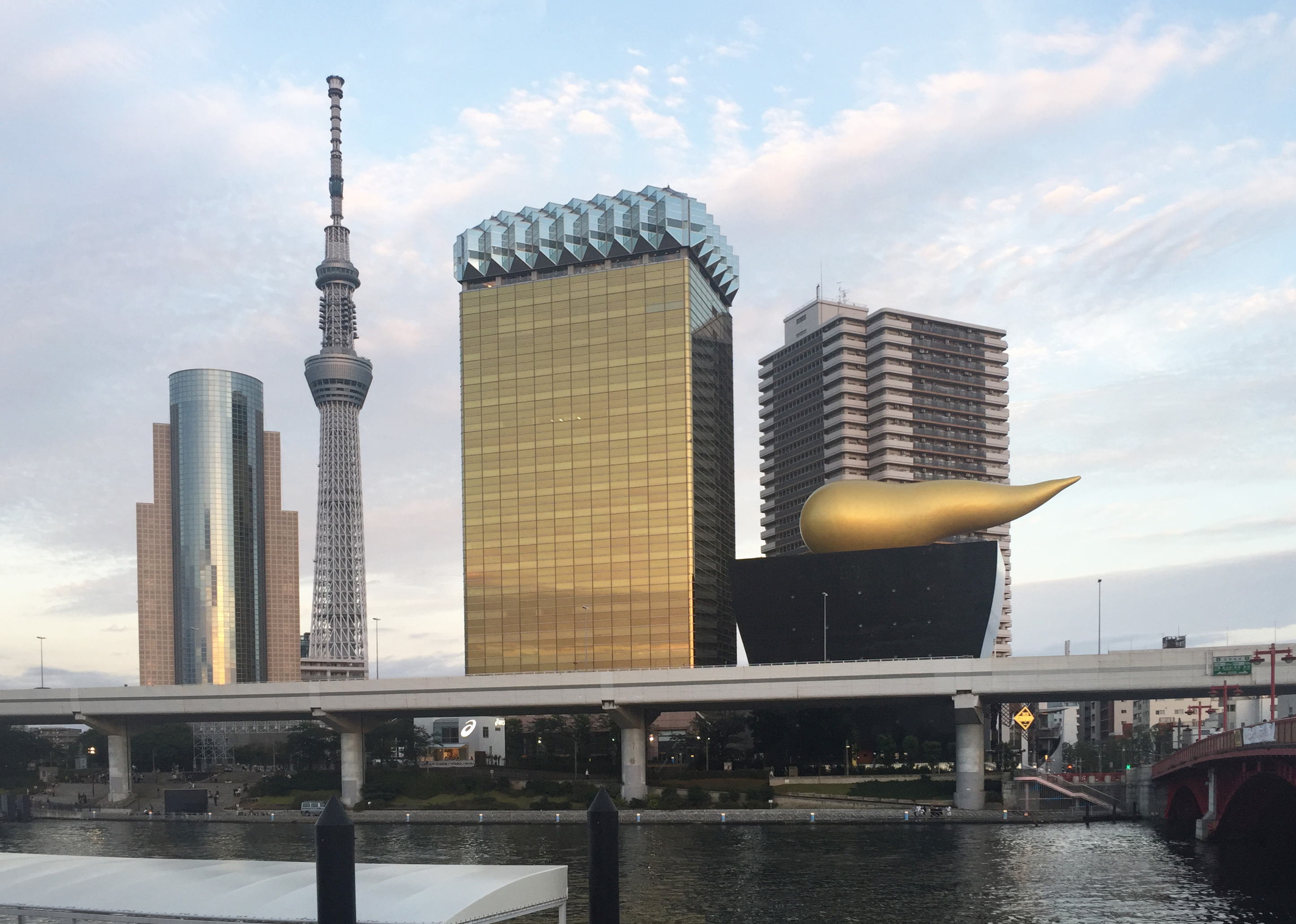 view from the riverside near AZUMA-BASHI Bridge of SUMIDA River